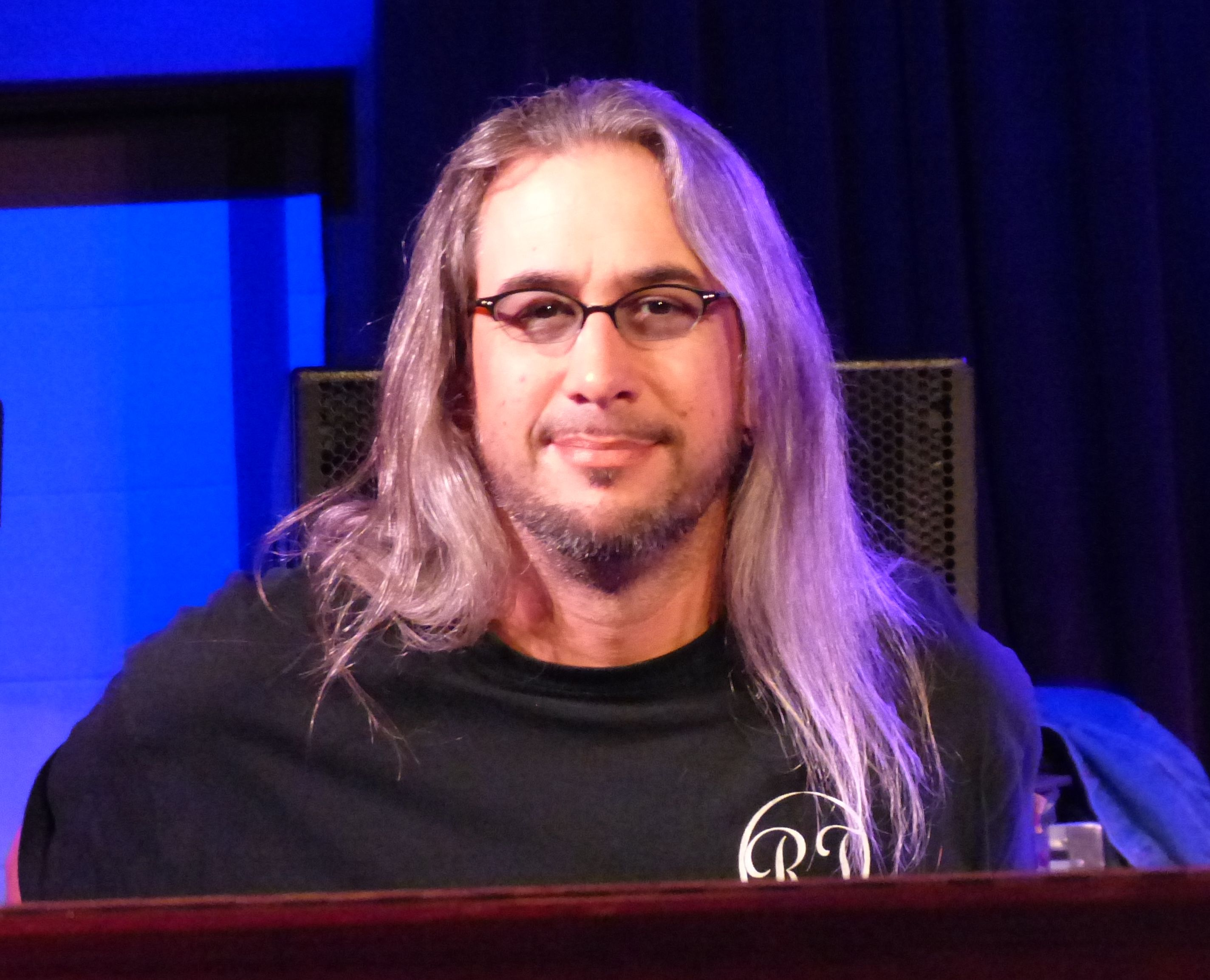 Jeff Chimenti during performance of Phil Less & Friends Dec. 6 2013